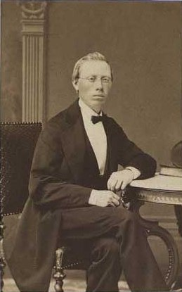 Danish theologian, Rector of the University of Copenhagen, bishop in Zealand, estate owner, Peder Madsen (1843-1911)